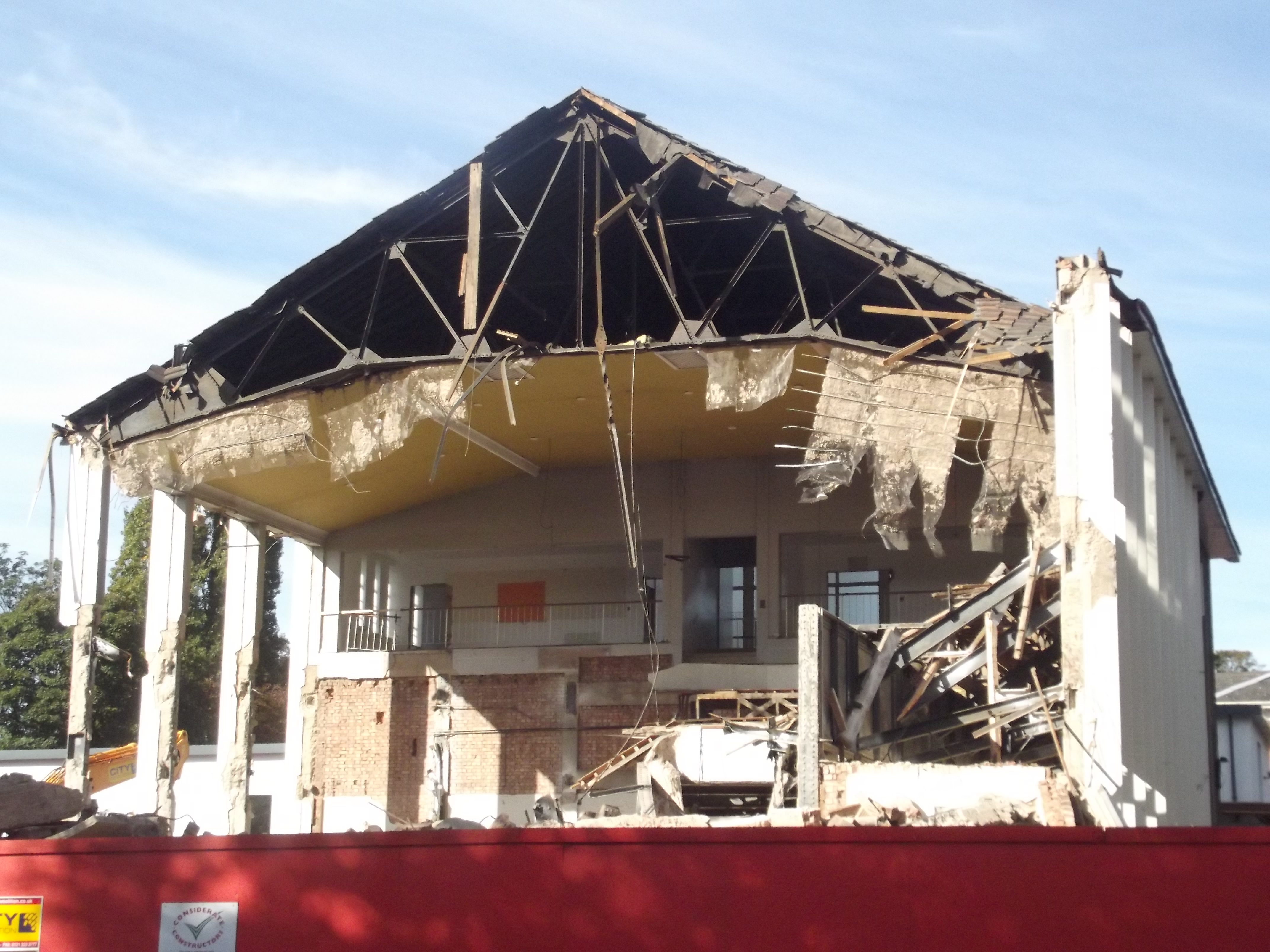 While the handover was in August 2013, for almost two months the developers had to first remove all the asbestos that was inside the building (used in the 1960s for insulation). As of early October 2013, demolition of the former Birmingham Central Synagogue has begun. Getting it now before it is gone forever! Demolition by City Demolition.